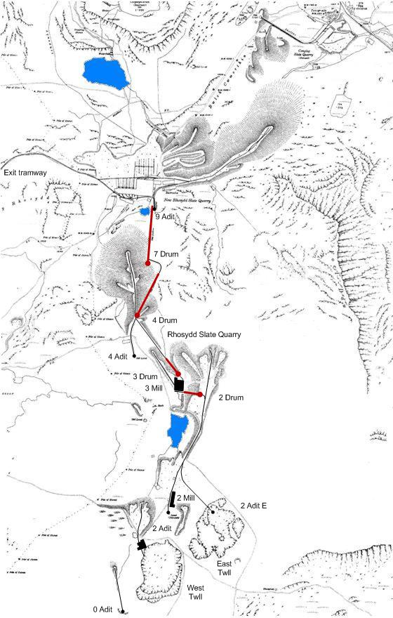 Map showing Rhosydd Quarry, near Blaenau Ffestiniog, Wales, in 1919, with overlays to show tramways, adits and inclines